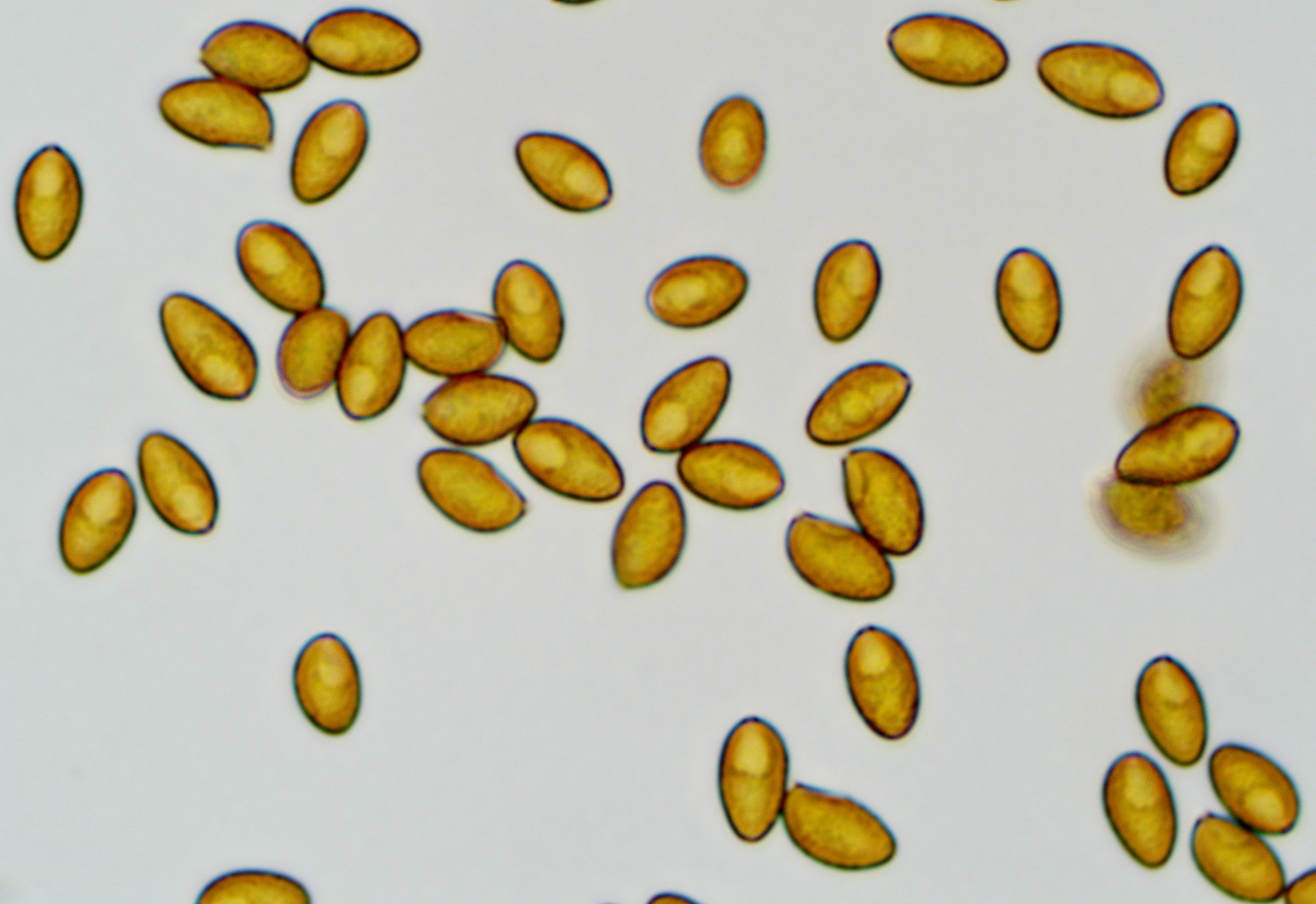 A plage is a discrete, smooth and flat to slightly concave patch near the former point of attachment to a basidium on an otherwise textured spore.